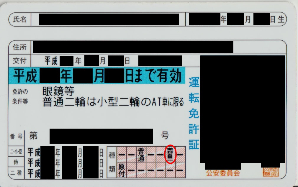 Japanese driving license showing the category for a small motorcycle. Based on